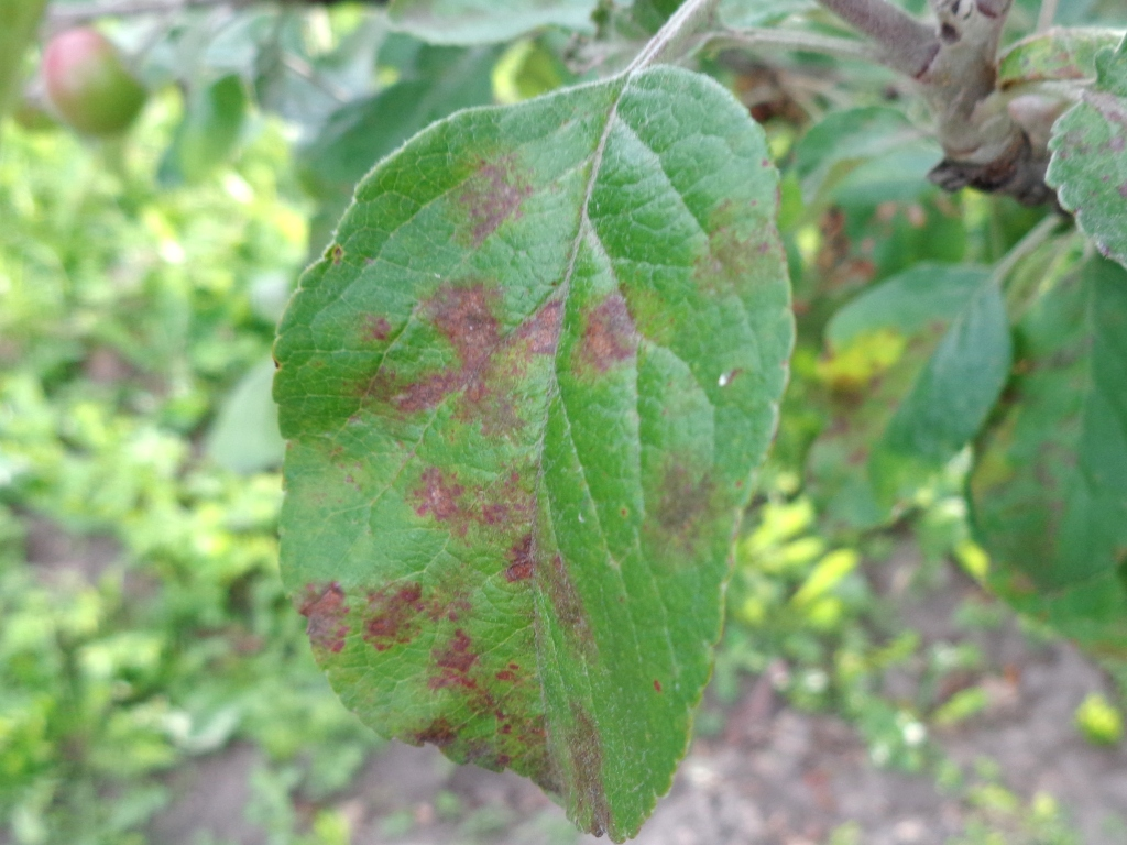 Venturia inaequalis. Found in Bērzi village near Bauska city, Latvia